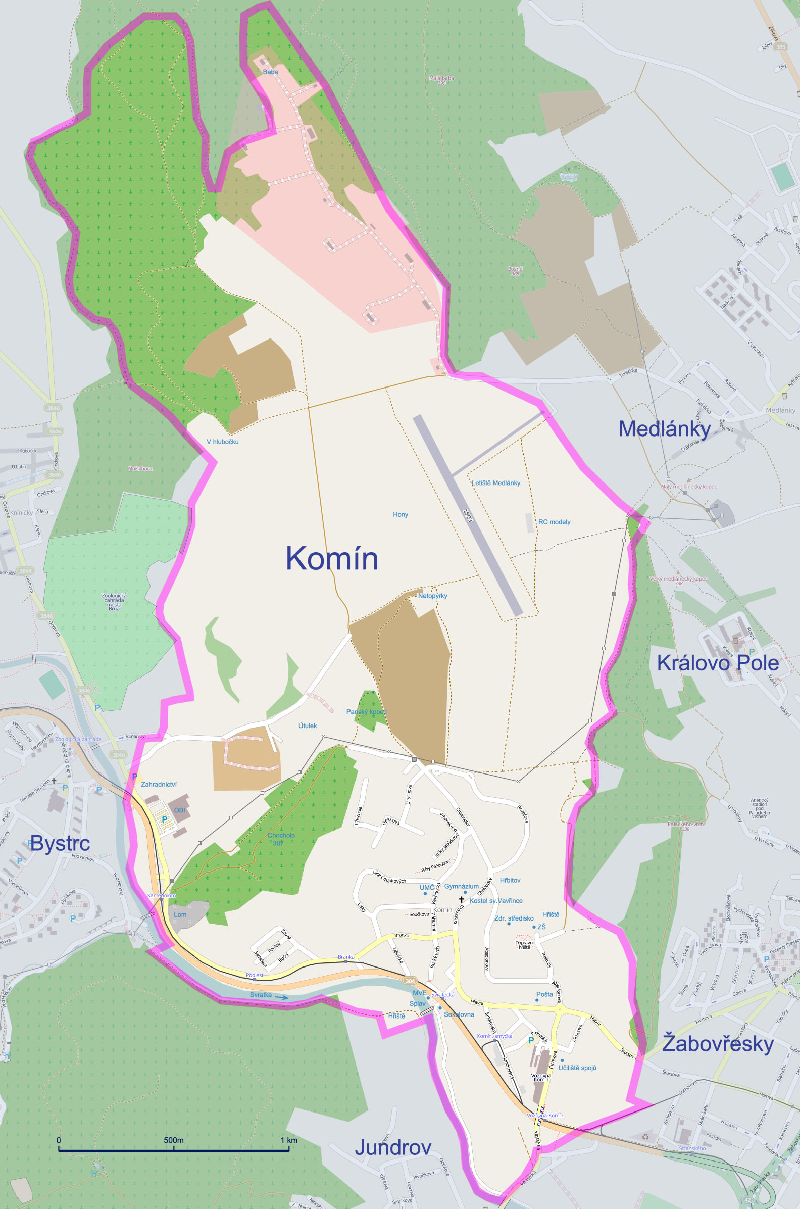 A map of Brno-Komin, Czech Republic